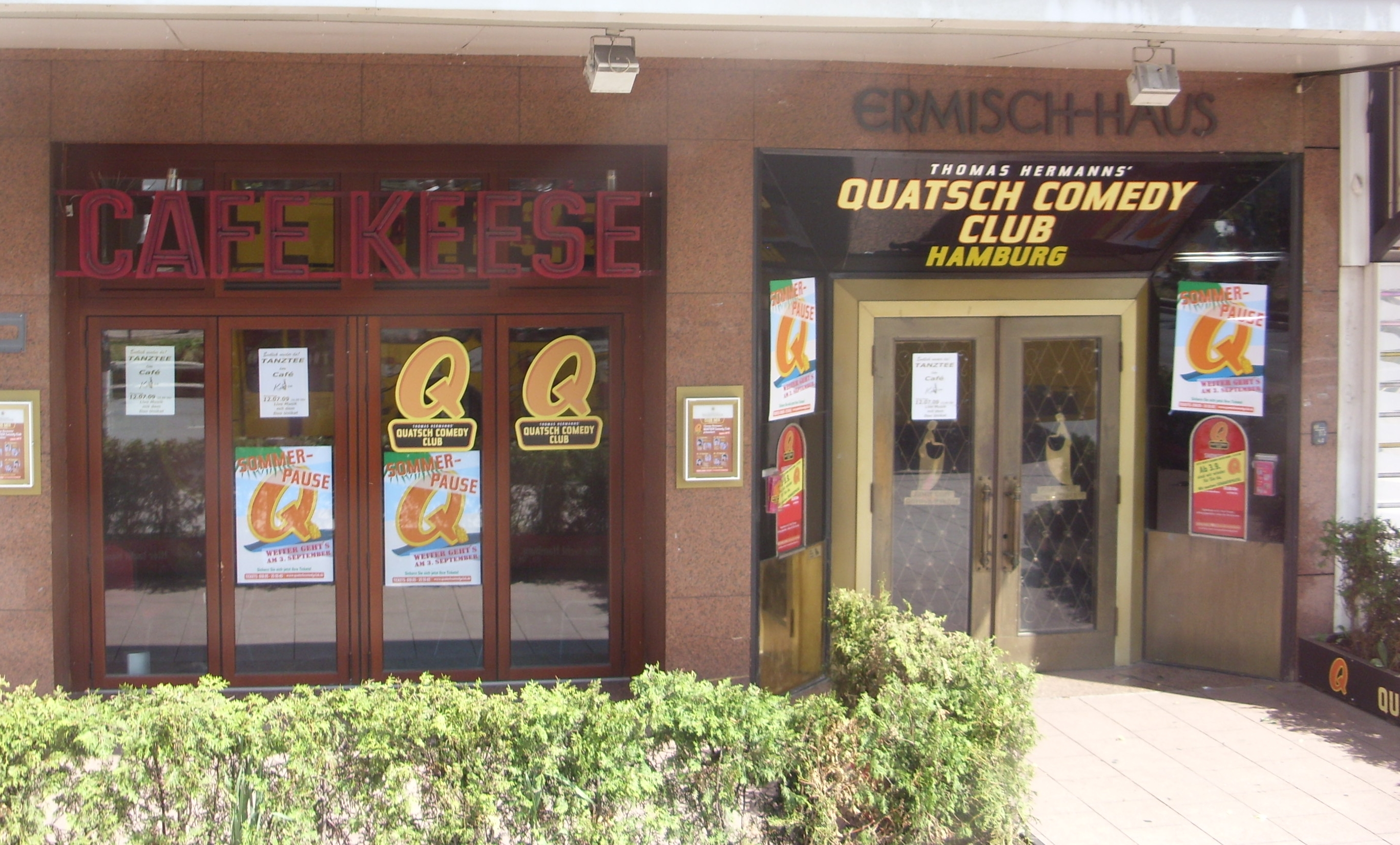 Exterior of the Quatsch Comedy Club in the building of Café Keese on the Reeperbahn in Hamburg-St. Pauli, Germany